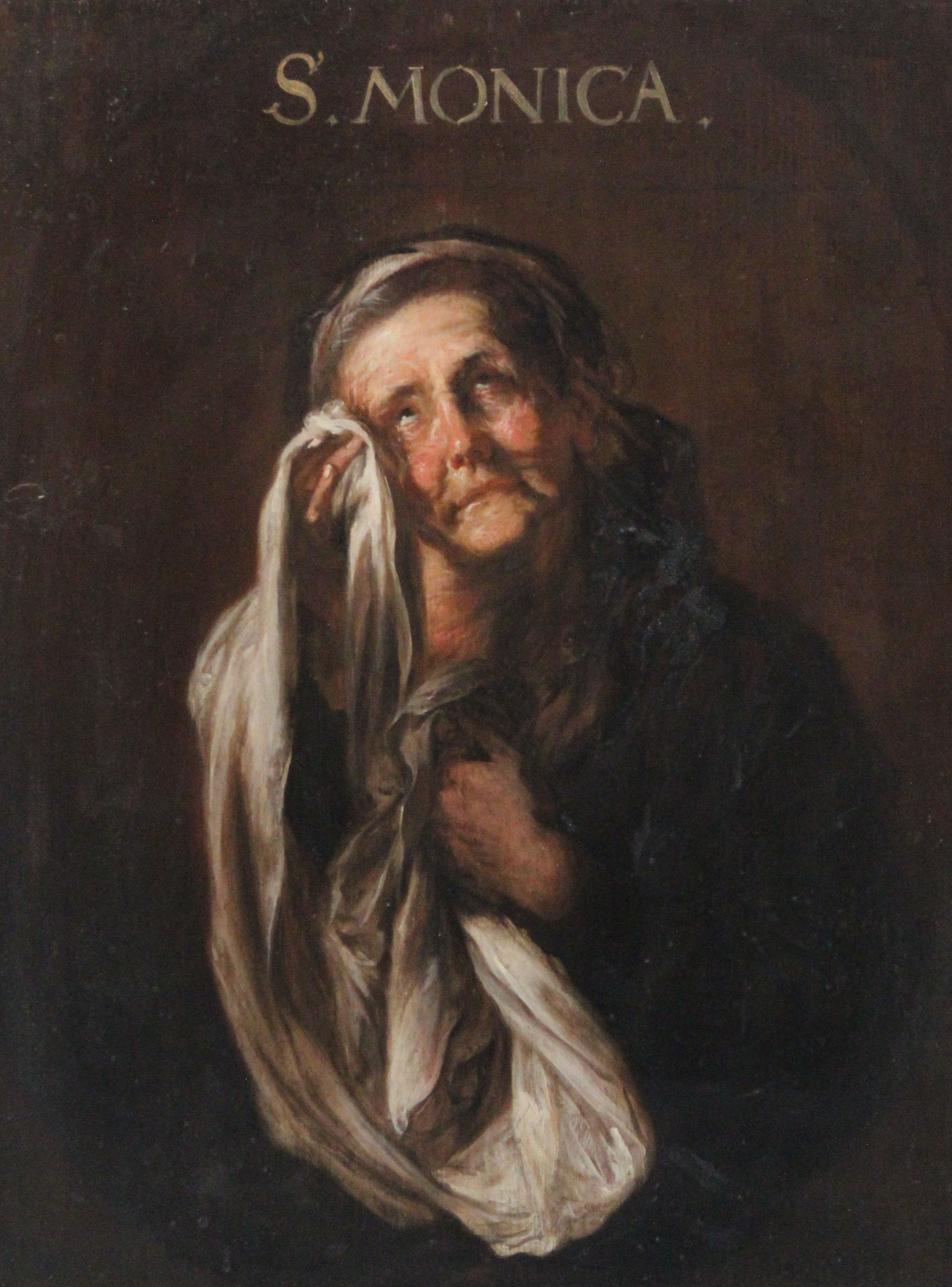 Michael Willman St. Monica (1660-1670) from National Museum in Wroclaw (after 1825 in the collection of the Kunst- und Antikenkabinett der Koniglichen Universitat zu Breslau - Royal University in Wroclaw).